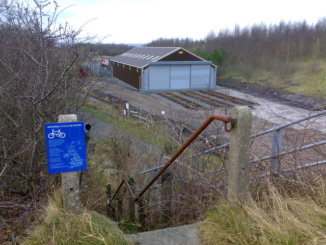 Cycle path near Cynheidre Altogether a very strange place...Some railway locomotives and wagons on short bits of track that go nowhere, at least the National Cycle Network goes somewhere!